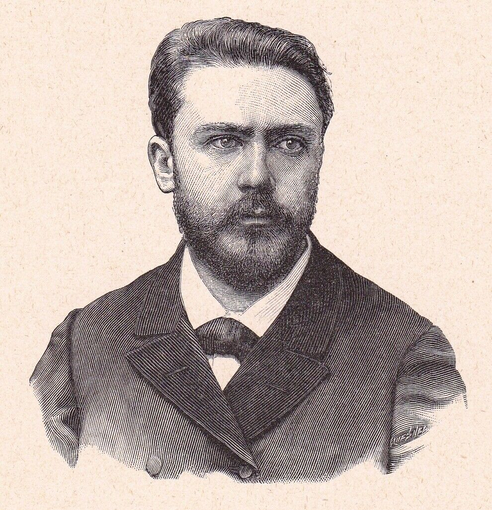 French writer Gustave Geffroy (1855-1926)